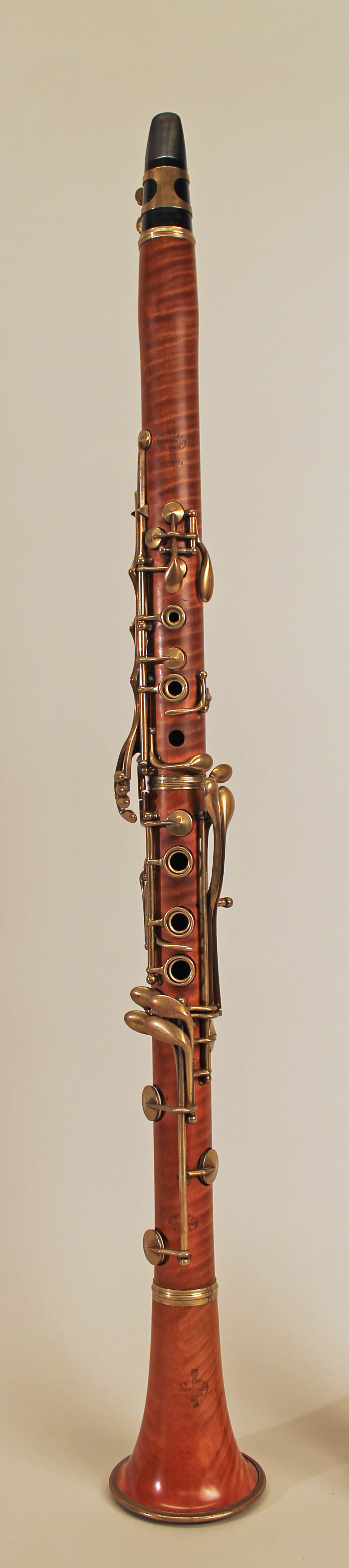 French; Clarinet in D; Aerophone-Reed Vibrated-single reed cylindrical